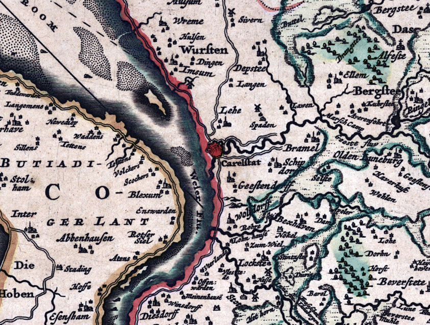 Clipping from an old map of the Herzogtümer Bremen und Verden (“Duchies of Bremen and Verden”), Germany, made around 1685 by Nicolaes Visscher, showing the region of the estuary of the Weser River.